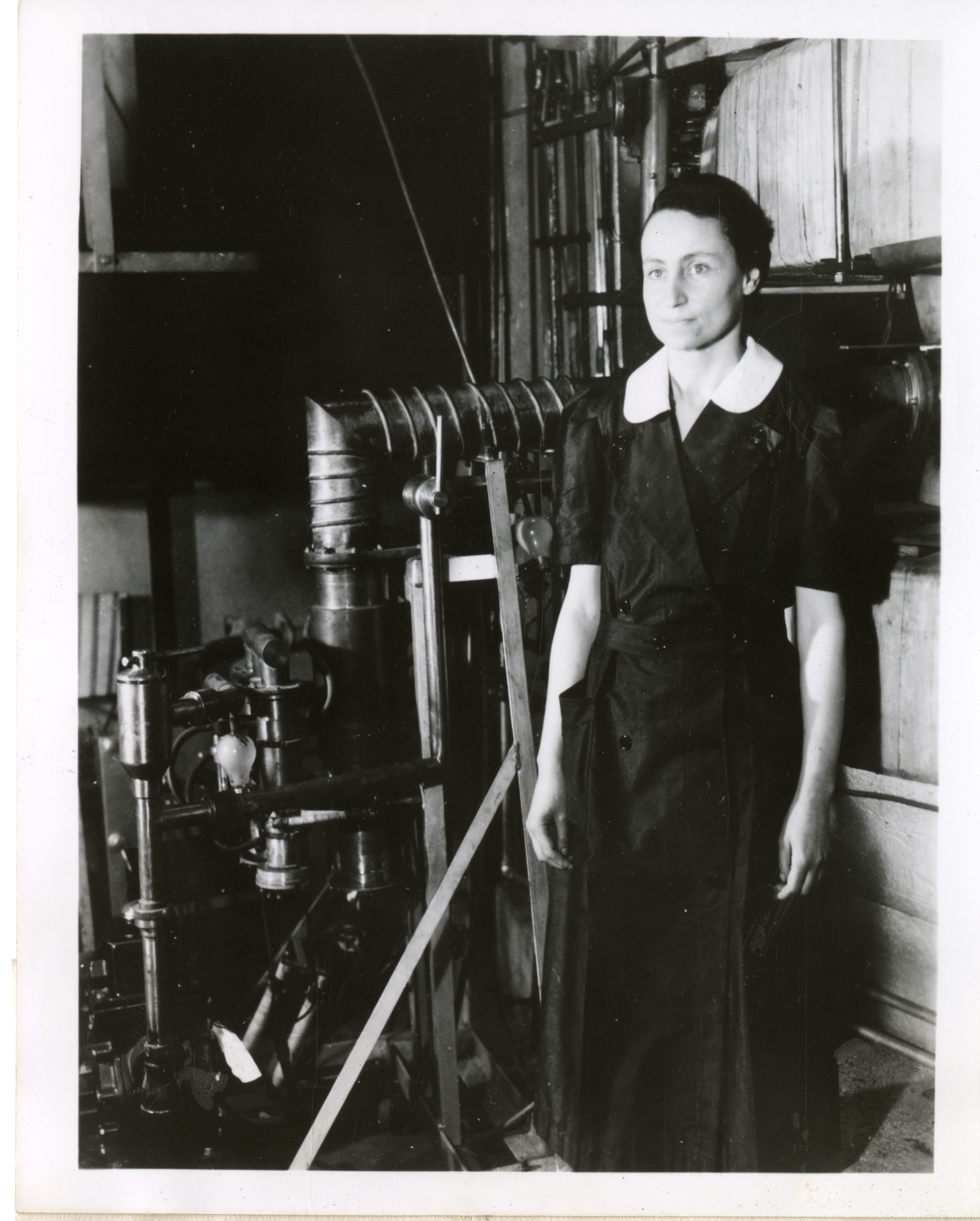 Creator: Science Service Subject: Leng, Herta R Rensselaer Polytechnic Institute Purdue University Type: Black-and-white photographs Date: 1940 Topic: Physics Women scientists Local number: SIA Acc. 90-105 [SIA2008-5248] Summary: Austrian-born physicist Herta R. Leng (1903-1997) fled Austria in 1939 and eventually immigrated to the United States in 1940. This photograph was taken when she was awarded an American Association of University Women International Fellowship. With that fellowship support, she continued her research on radioactivity at Purdue University and later joined the faculty at Rensselaer Polytechnic Institute (RPI), where she taught until 1968. Every year, RPI honors Leng with the Herta Leng Memorial Lecture series Cite as: Acc. 90-105 - Science Service, Records, 1920s-1970s, Smithsonian Institution Archives Persistent URL: Repository:Smithsonian Institution Archives View more collections from the Smithsonian Institution.